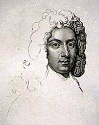 Field Marshal Richard Boyle, 2nd Viscount Shannon PC (1675 – December 20, 1740) was a British military officer and statesman.